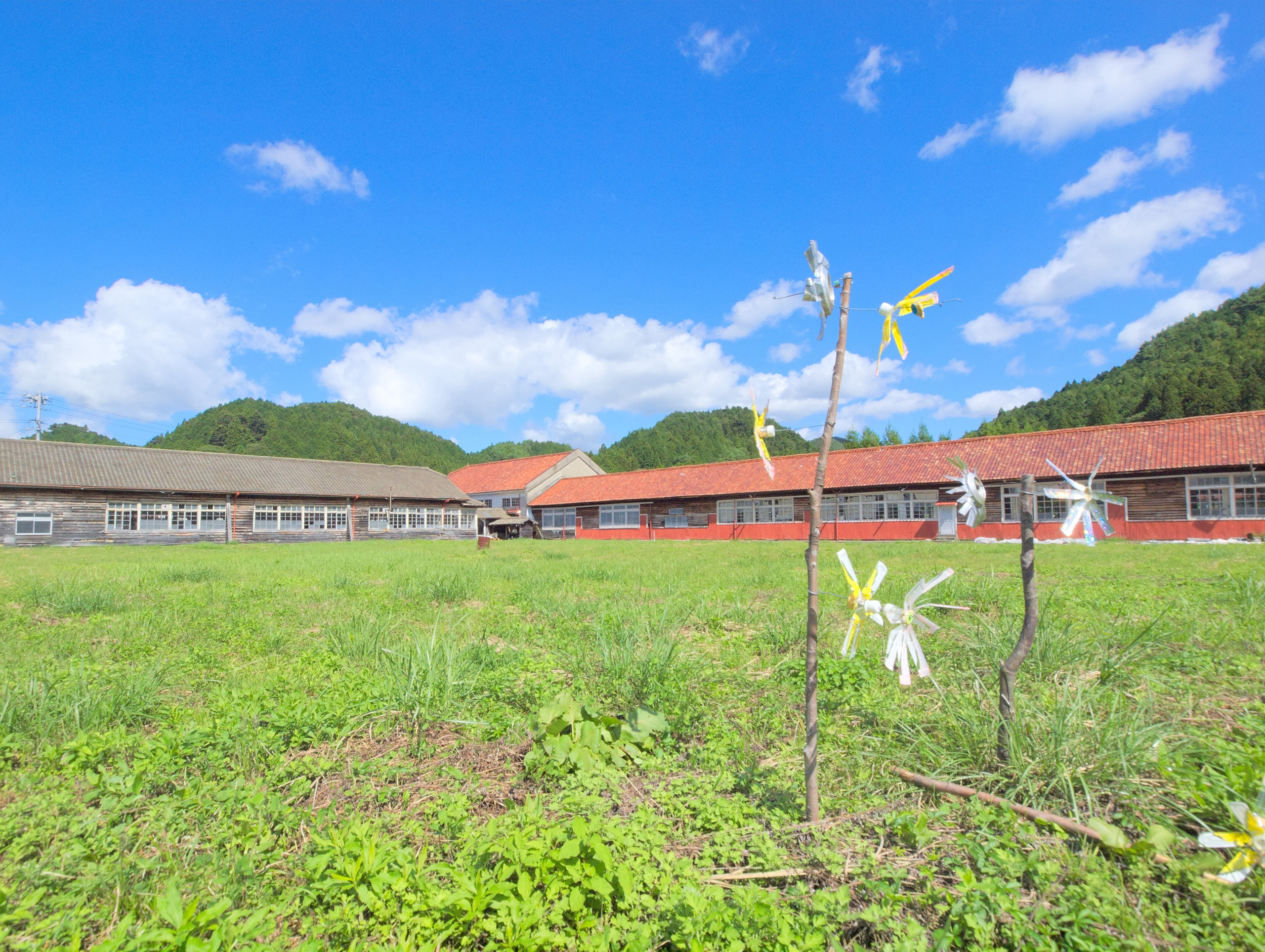 Maruman Sangyo Tsugu Factory in Tsugu, Shitara town, Kitashitara District, Aichi Prefecture 441-2601, Japan